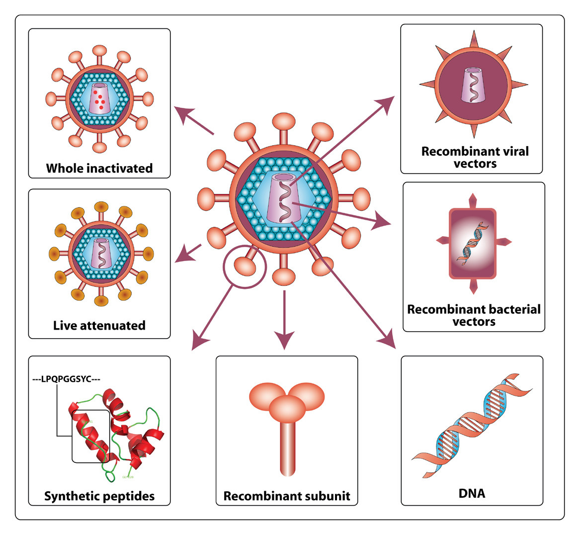 The various approaches used in past and present HIV vaccine strategies that are summarized here.